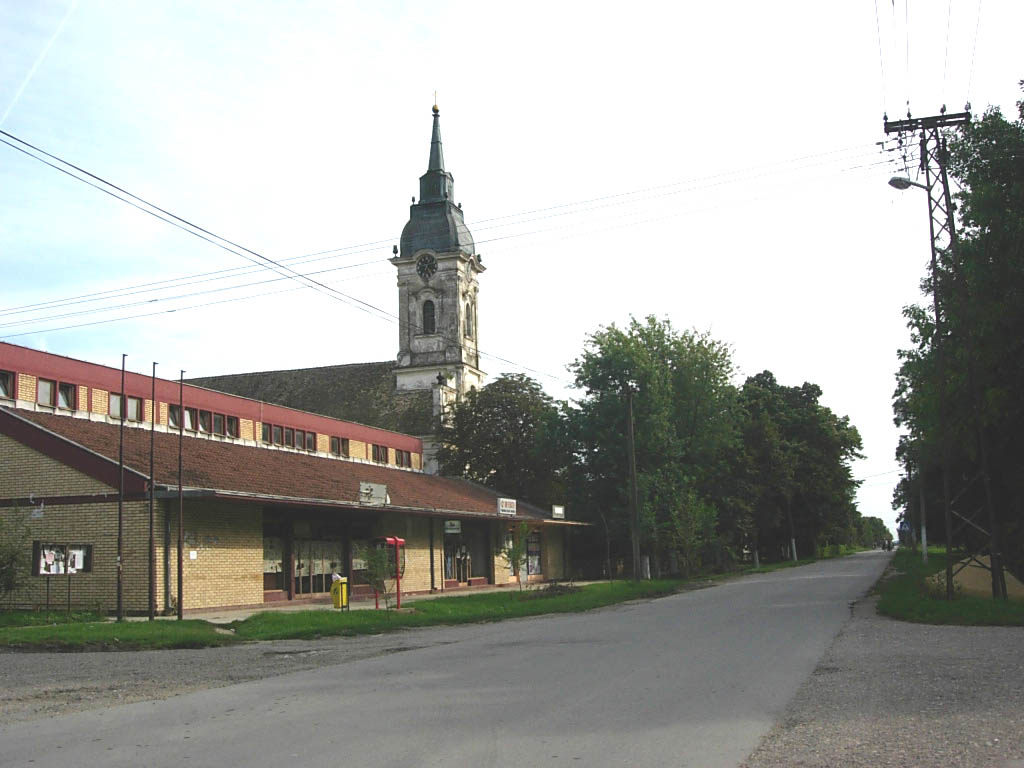 The Orthodox church in Tomaševac.